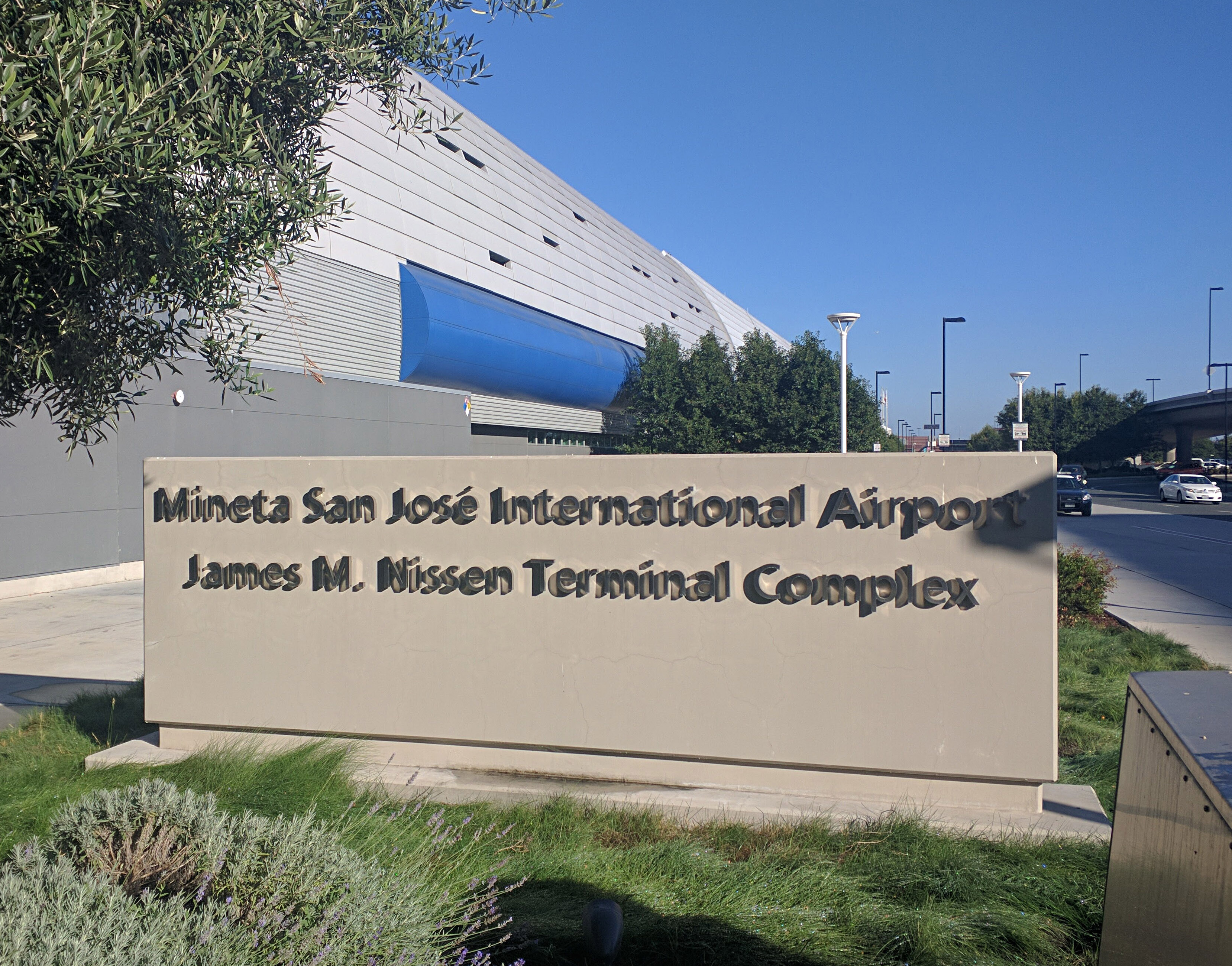 The James M. Nissen Terminal Complex at Mineta San José International Airport, in July 2016